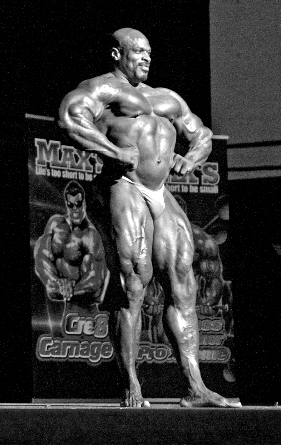 Ronnie Coleman 8 x Mr Olympia 2009 Melbourne, VIC, Australia